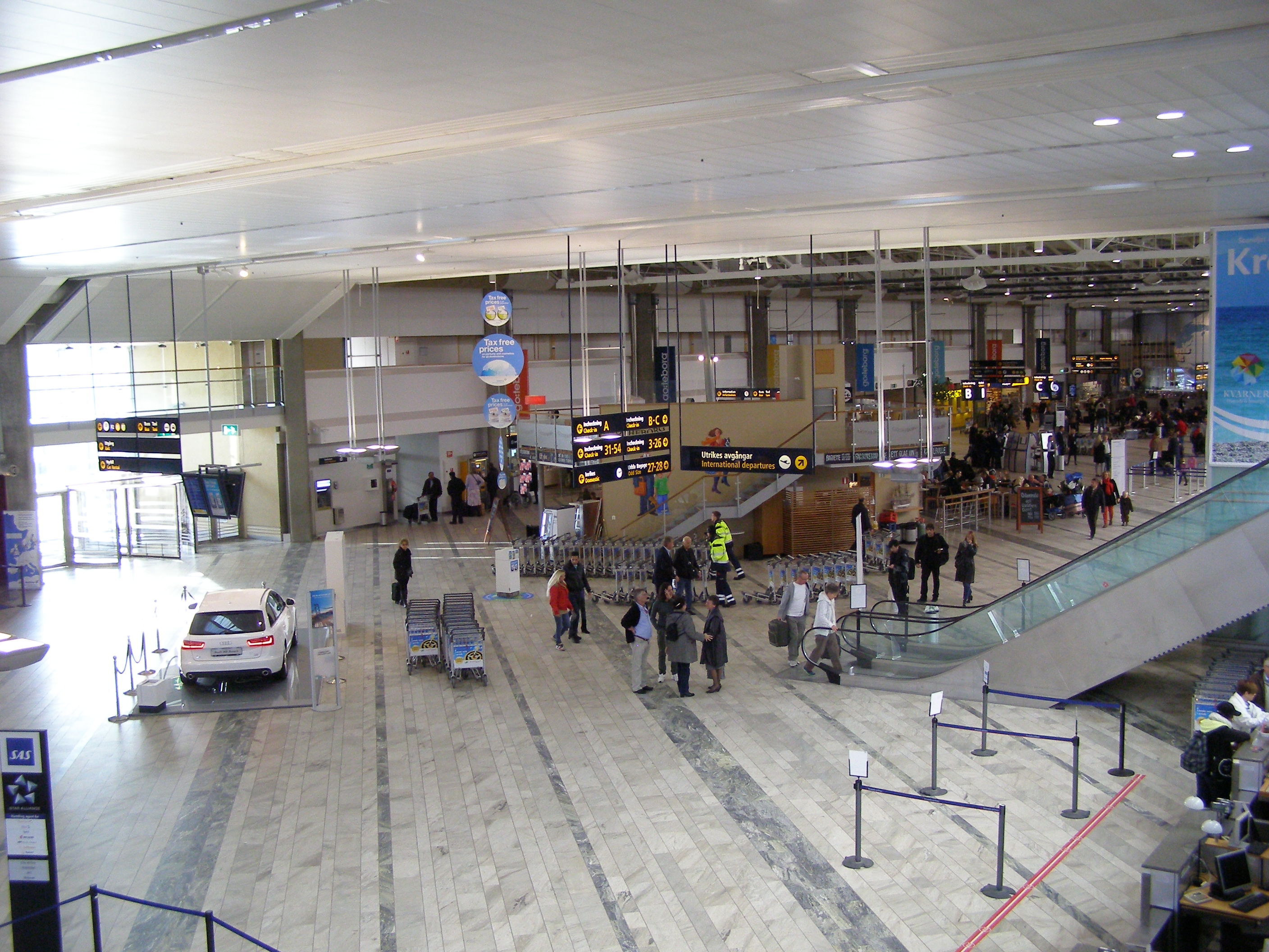 Göteborg-Landvetter airpot - terminal interior